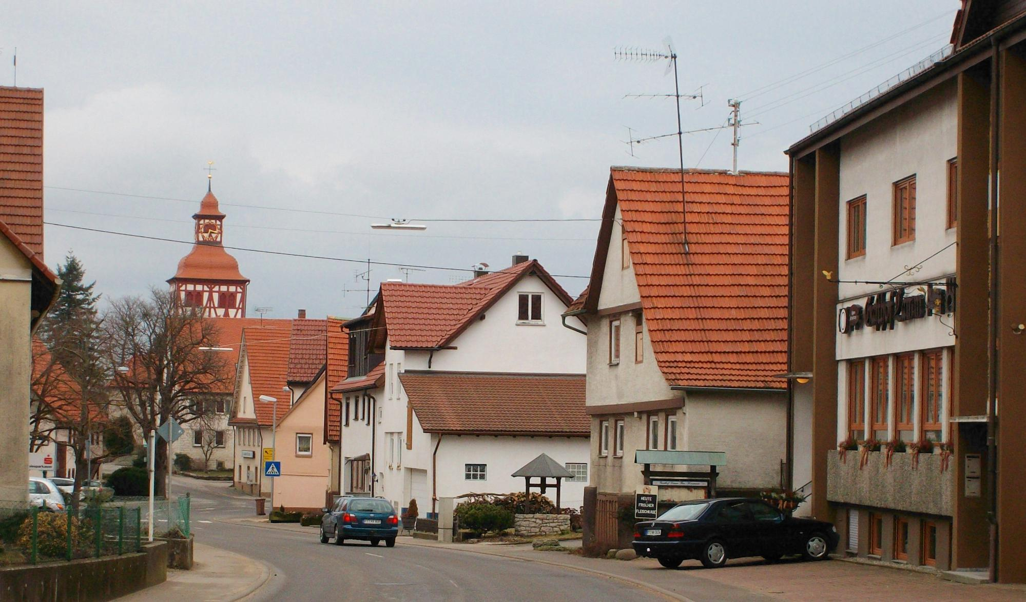 Grabenstetten, village in Germany, centre with church, seen from the west